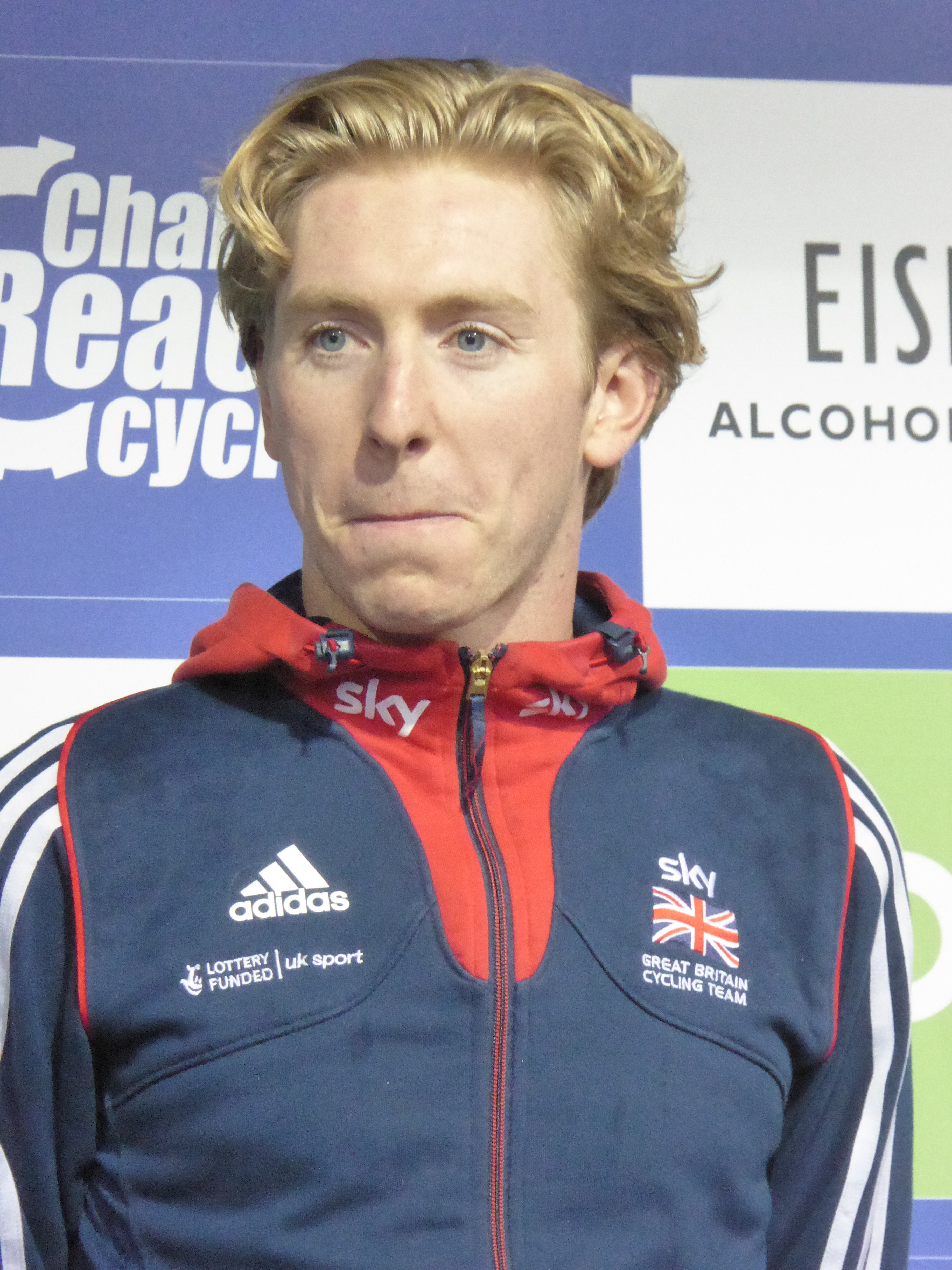 Mark Stewart (Great Britain national team), pictured at the 2016 Tour of Britain team presentation in Glasgow on 3 September 2016.